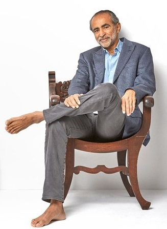 Sanjiv Sidhu 2015 Cropped